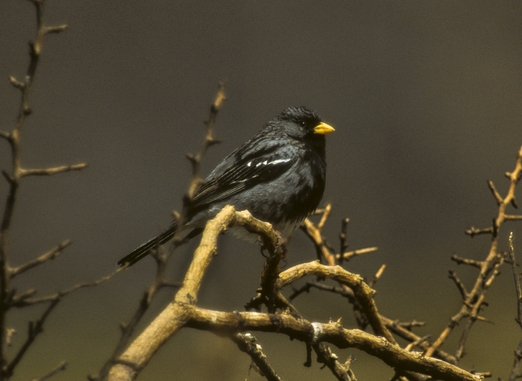 Mourning Sierra-Finch - Chile